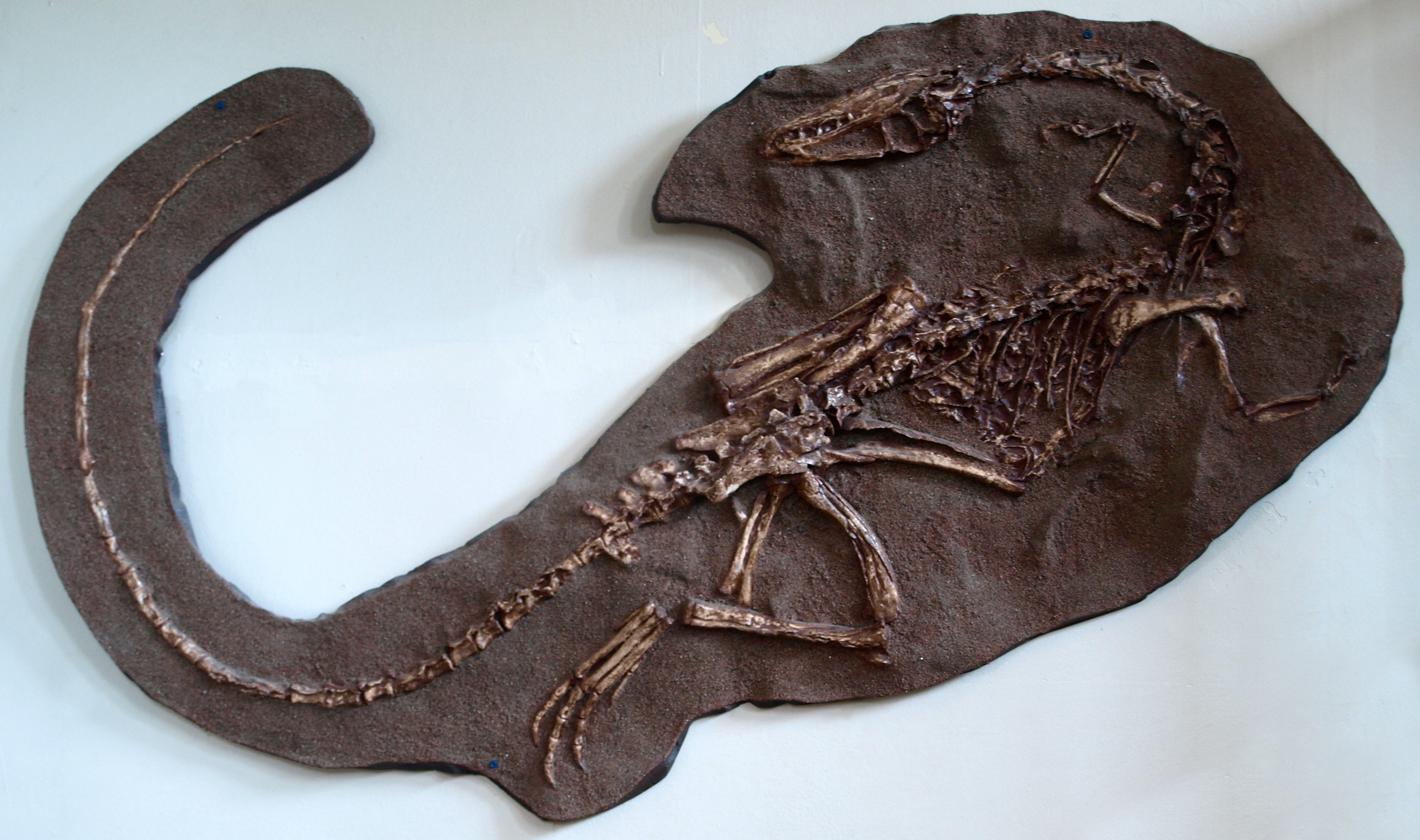 Cast of an example of Coelophysis, on display at the Redpath Museum, Montreal.